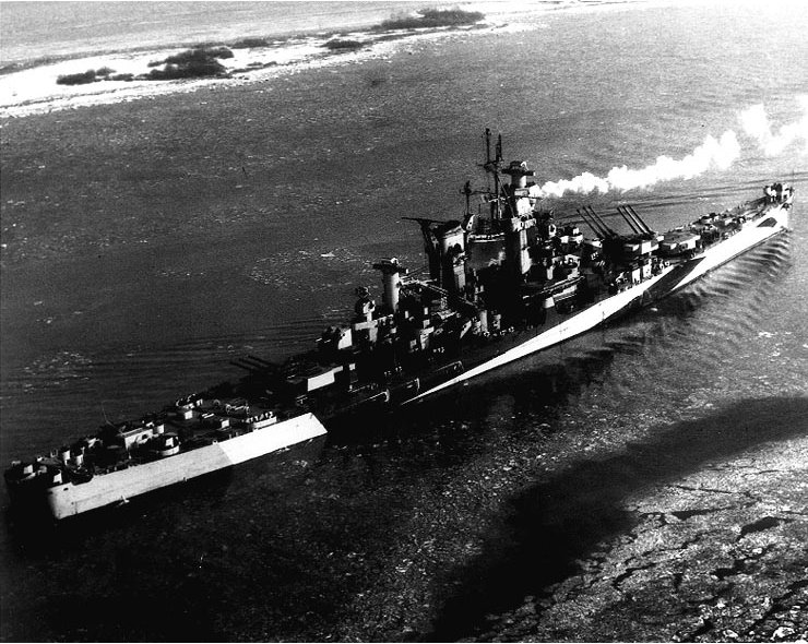 USS Guam (CB-2) photographed in the Delaware River, circa January 1945.